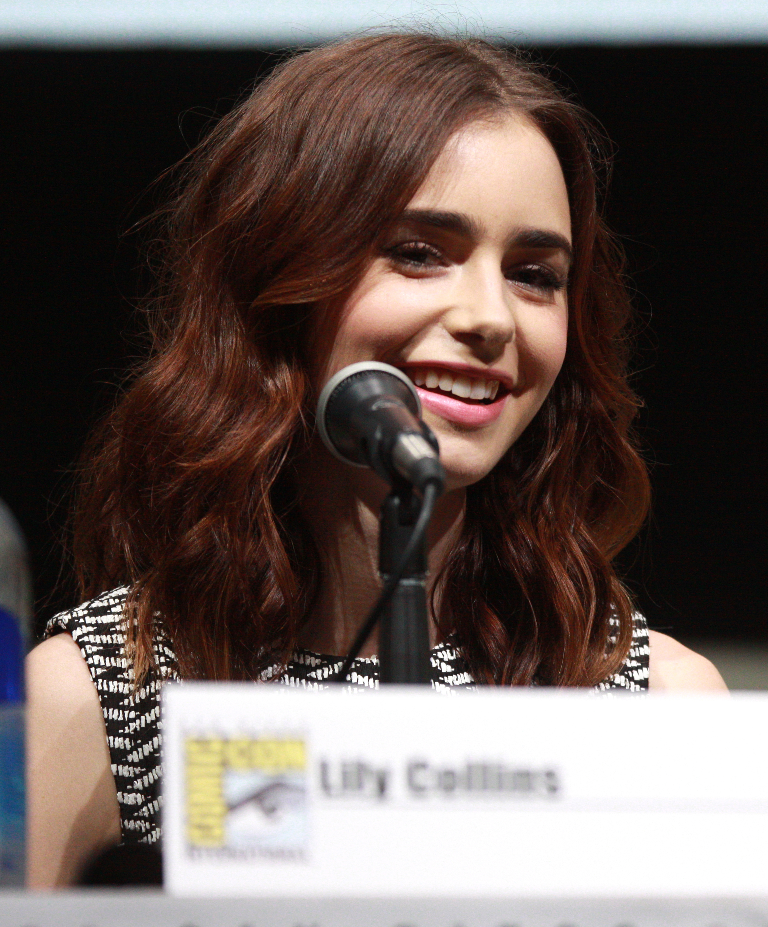 Lily Collins at the 2013 San Diego Comic Con International in San Diego, California.